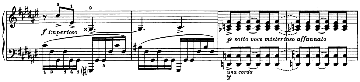 Bars 96-99 of Scriabin's 5th sonata